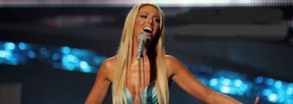 Tamara Gee Eurovision performance